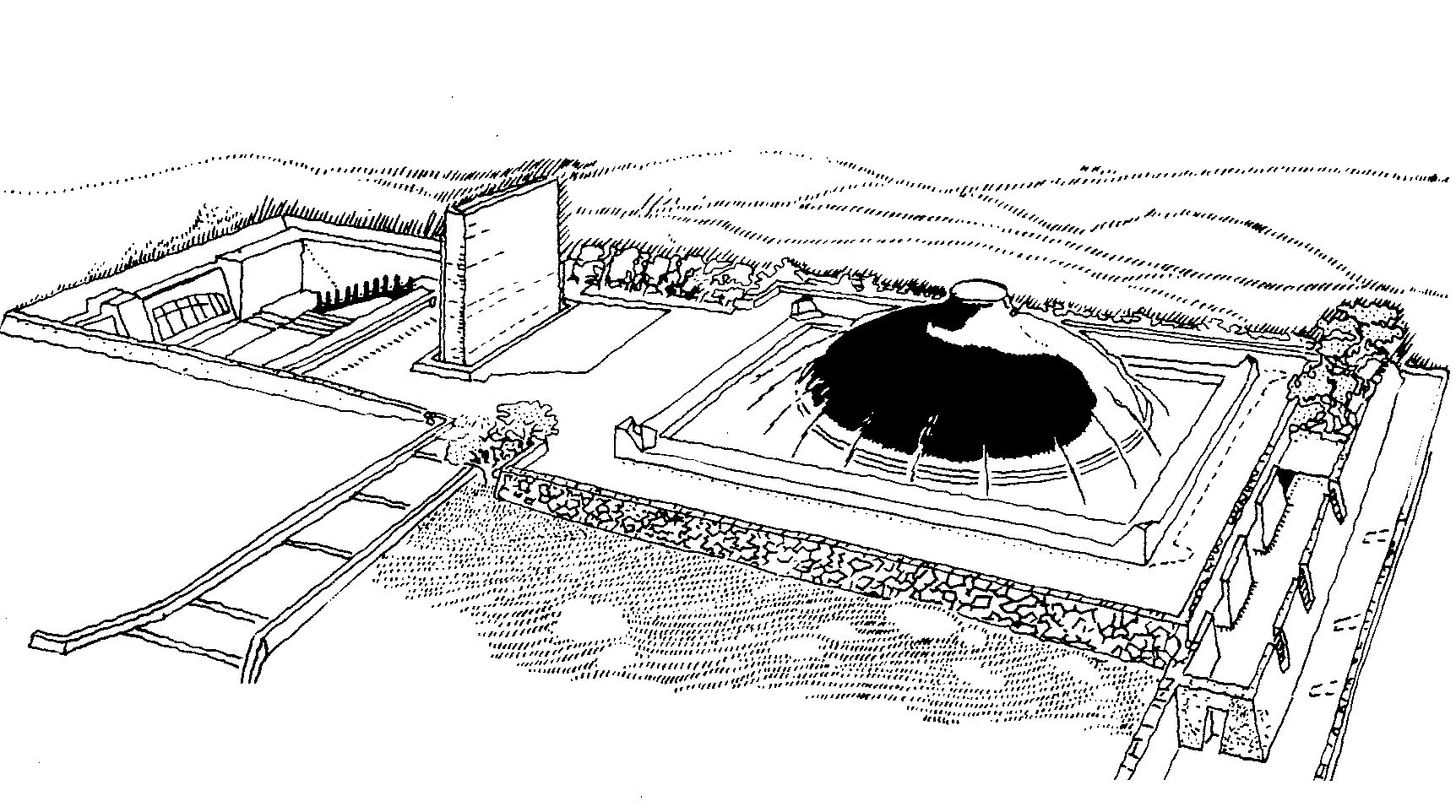 Outline of Shrine of Book, Jerusalem, Israel